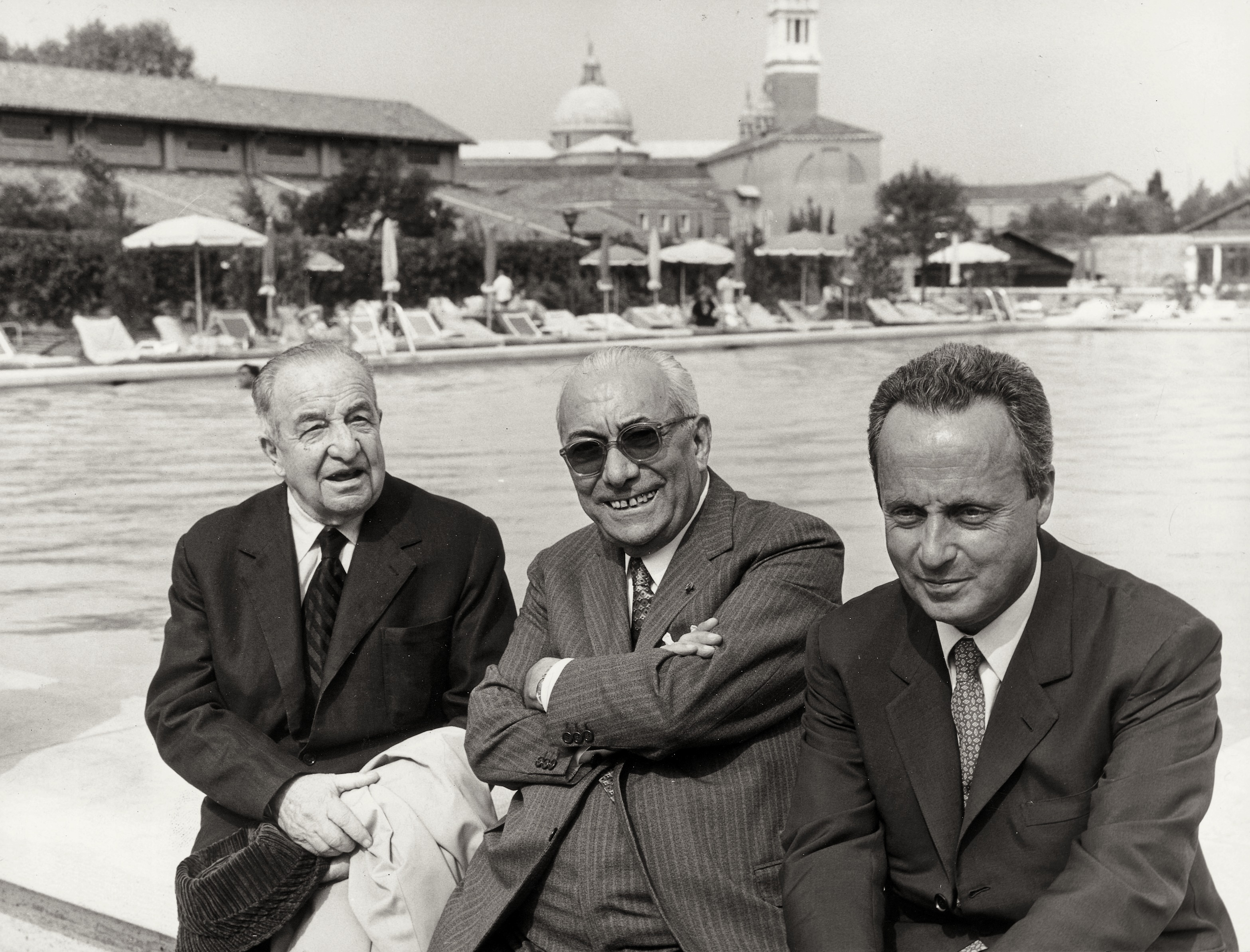 Italian publisher Arnoldo Mondadori with authors Giorgio Bassani and Aldo Palazzeschi.